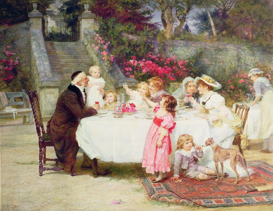 His First Birthday